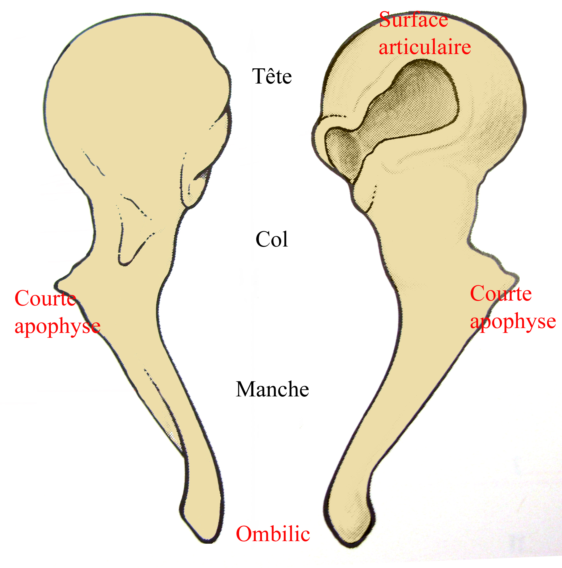 Malleus - French version